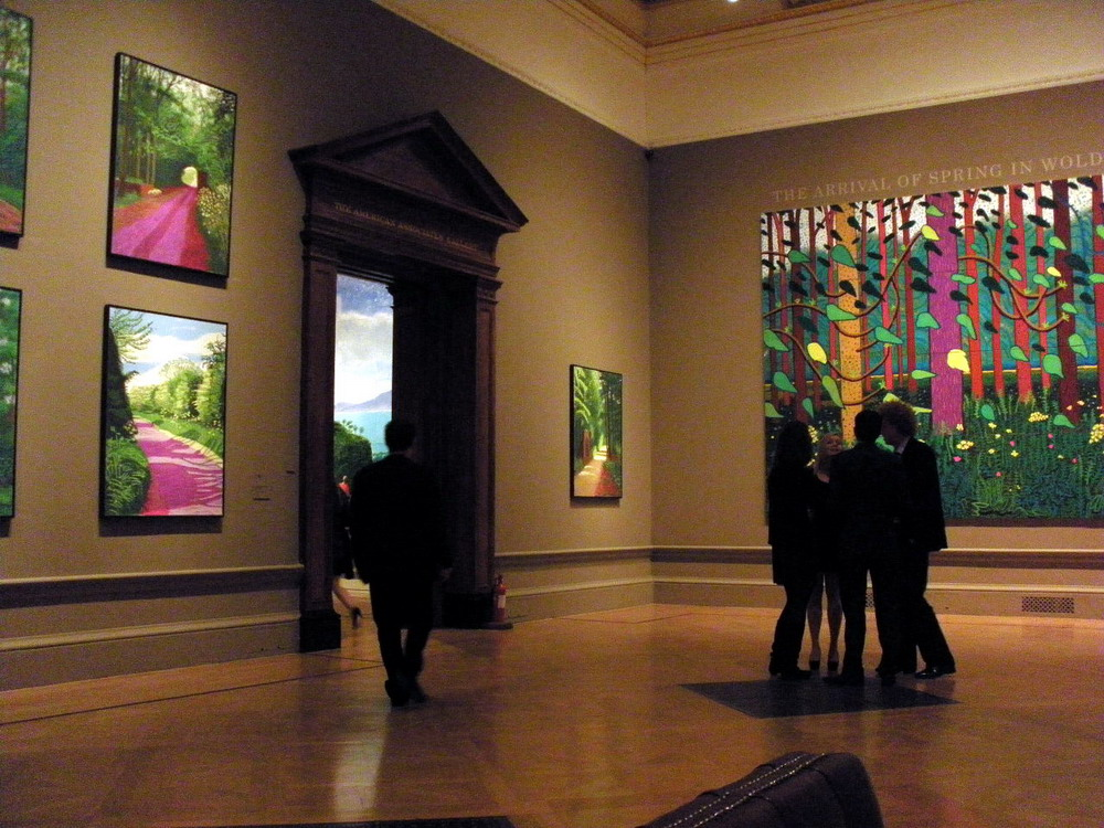 David Hockney exhibition at the Royal Academy of Arts in London, January 2012.